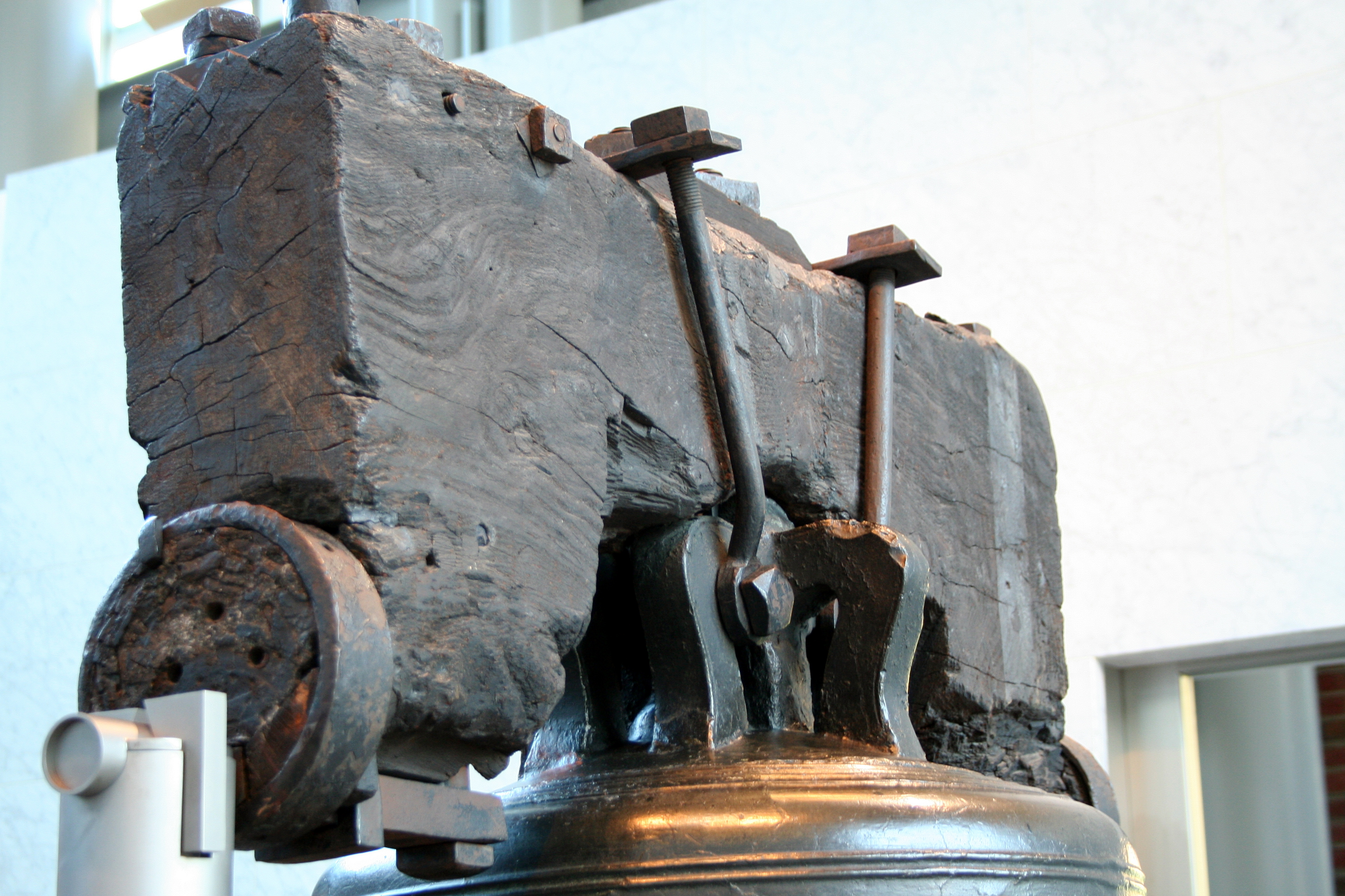 closeup of liberty bell mount